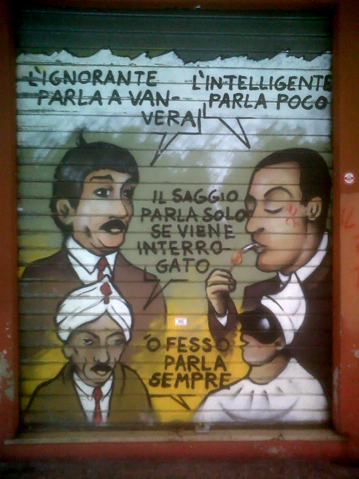 Shutters used for Commercial Activities imprinted above A Cartoon That expresses a Popular saying